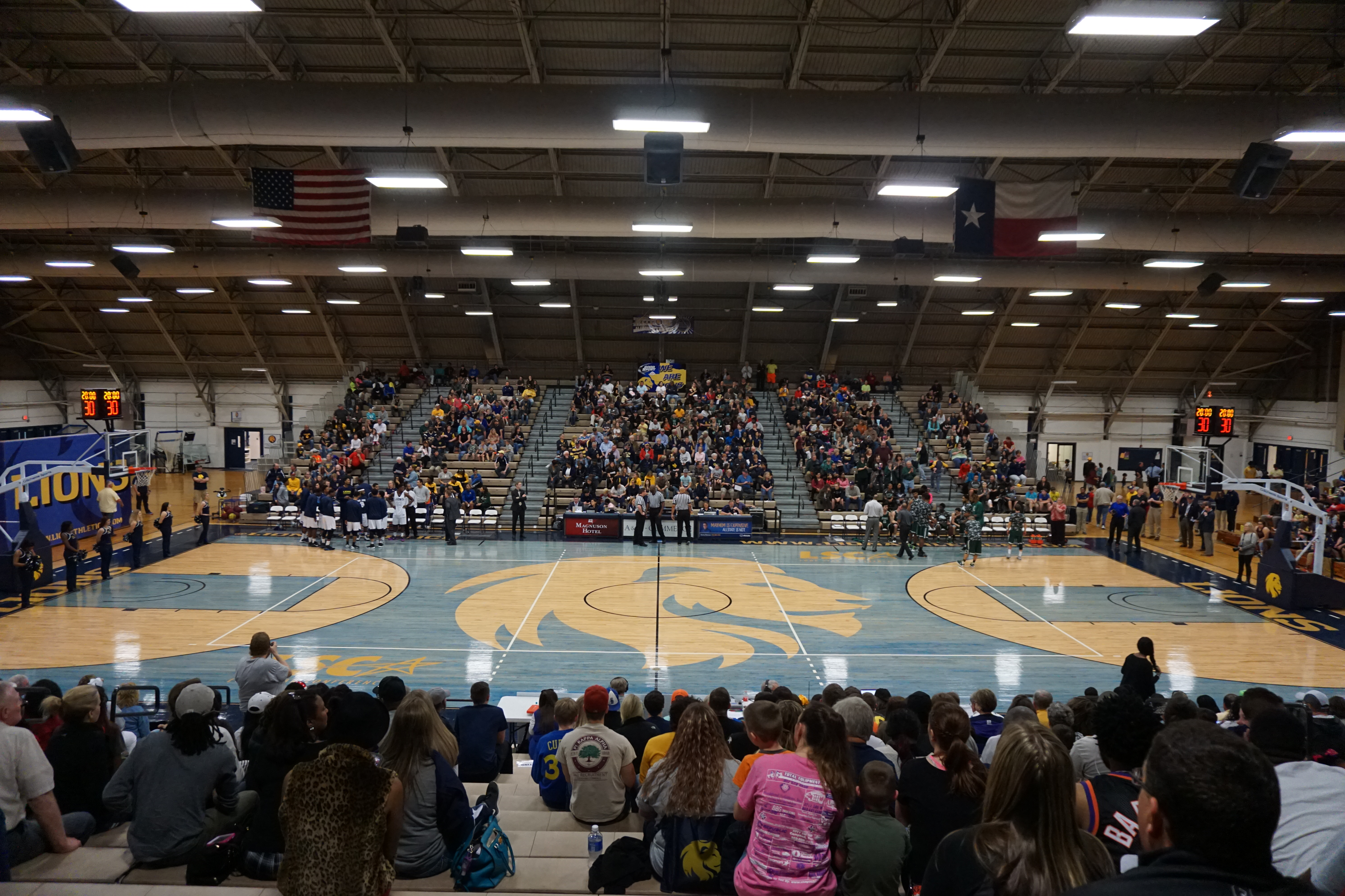 The interior of the arena before the Eastern New Mexico Greyhounds vs. Texas A&M–Commerce Lions men's basketball game at the Field House in Commerce, Texas (United States). A&M–Commerce won 81–73.